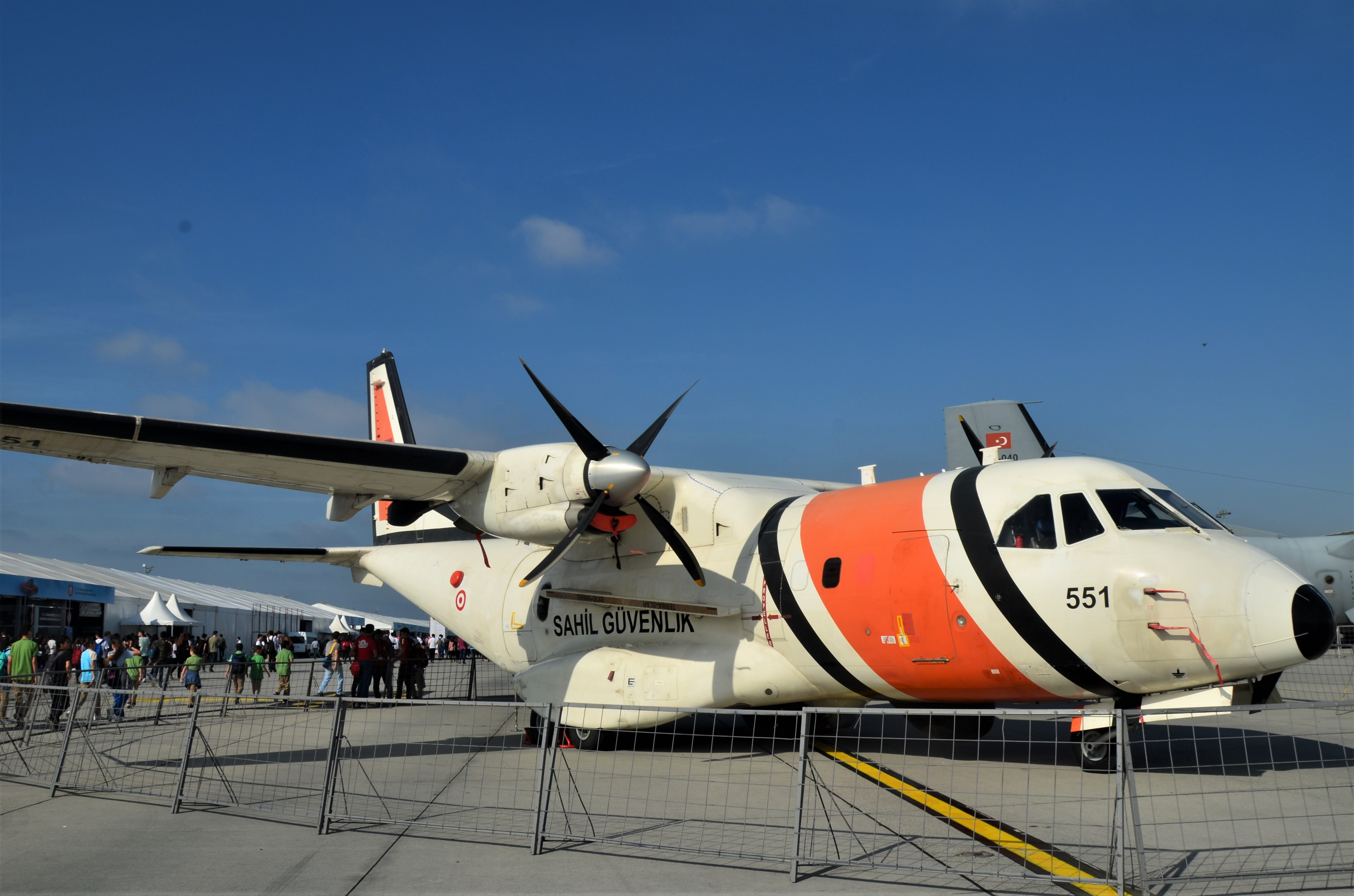 CASA/IPTN CN 235 of the Turkish Coast Guard at Teknofest 2019